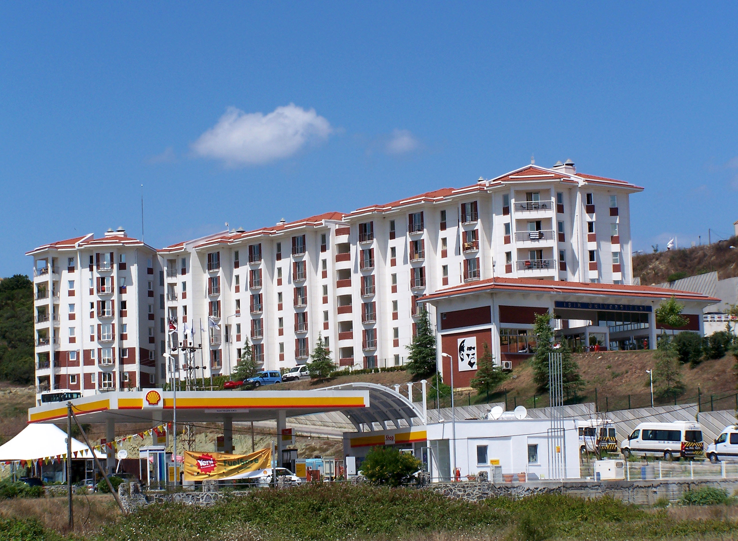 Bordo Yurtlar (Claret Red Dormitories) and the entrance gate to the Işık Üniversitesi in Şile